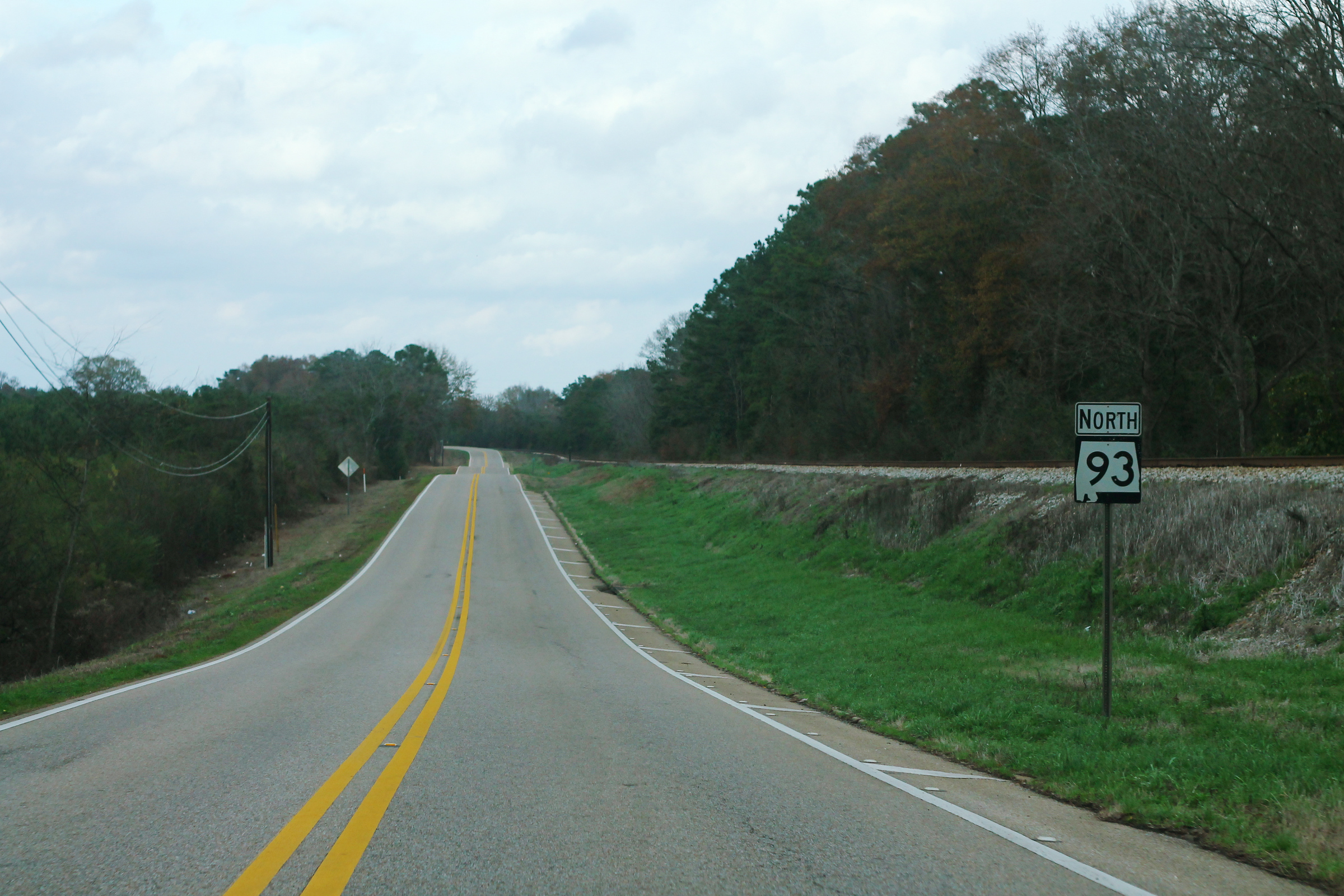 AL93nRoadSign-Brundidge